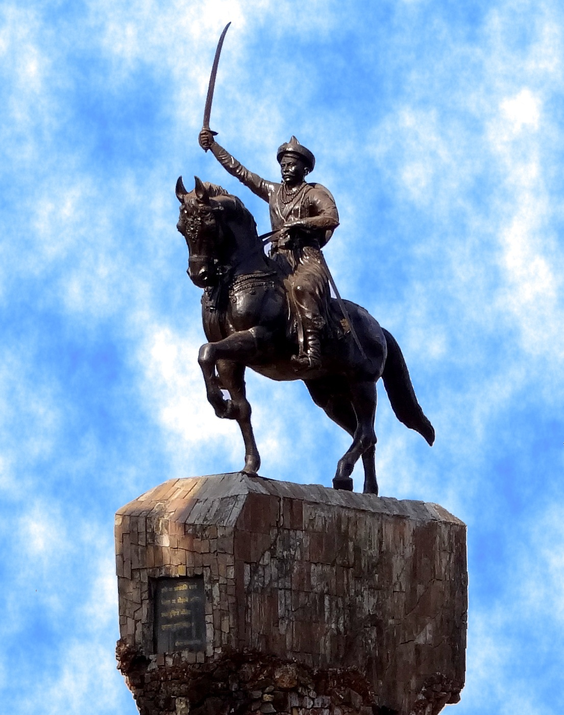 Statue of Chimaji Appa